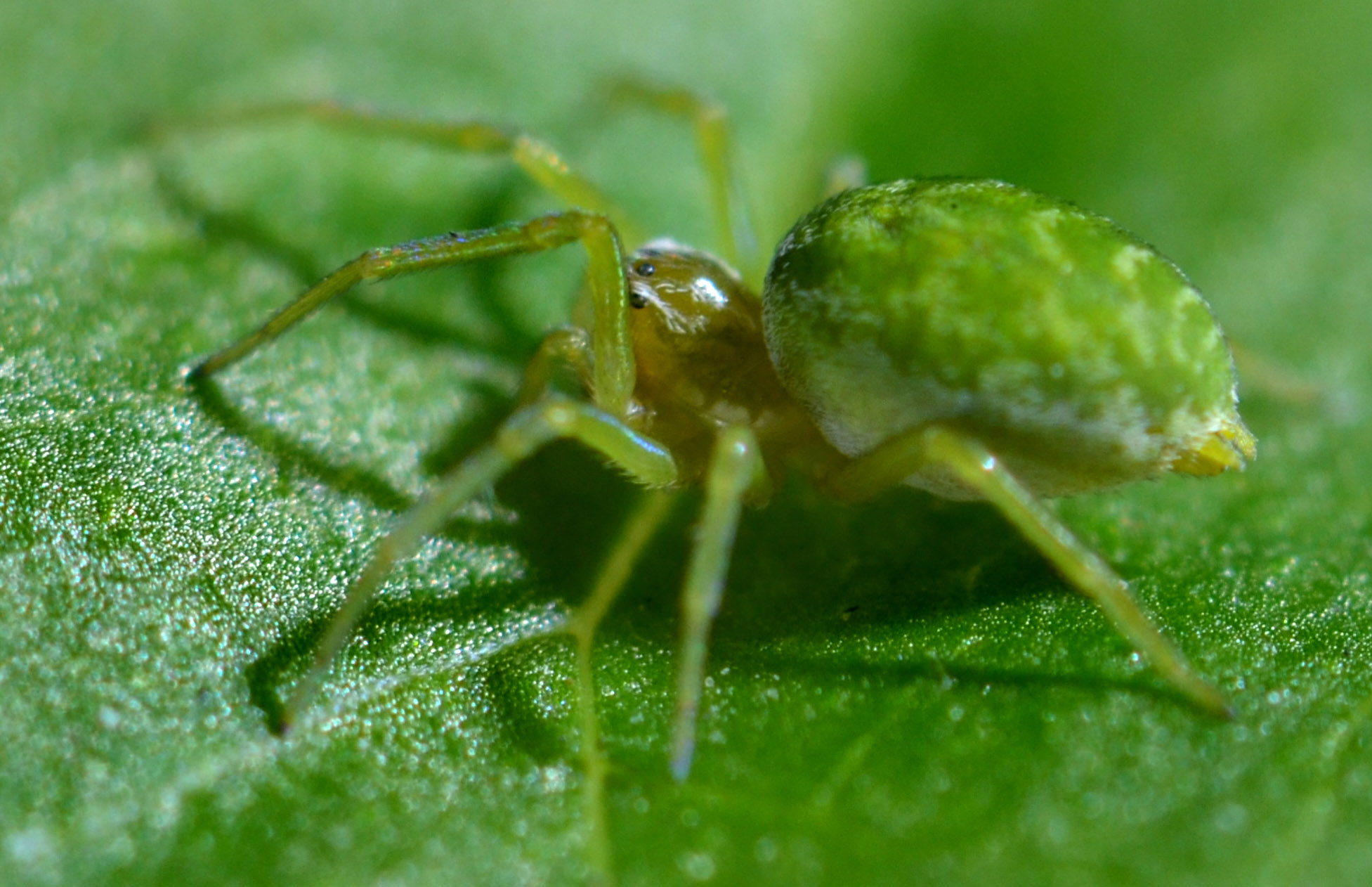 Nigma walckenaeri ; green cribellate spider (up to five millimetres long). It's the largest species in this family (Dictynidae), in Lambersart, (Nord-Pas-de-Calais, North of France, near Lille - 2014-09-27).